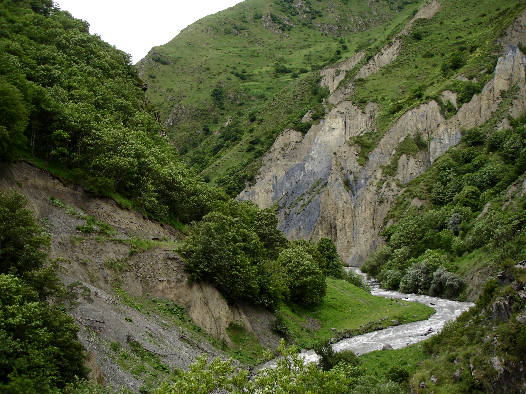 At this point, you're pretty much taken away by the landscape. Another day here and you will likely find yourself wanting to put up a cottage, herd some sheep and forget the city. In the Khevsureti region. Shatili is around the corner, the Chechen border 2 km up north.